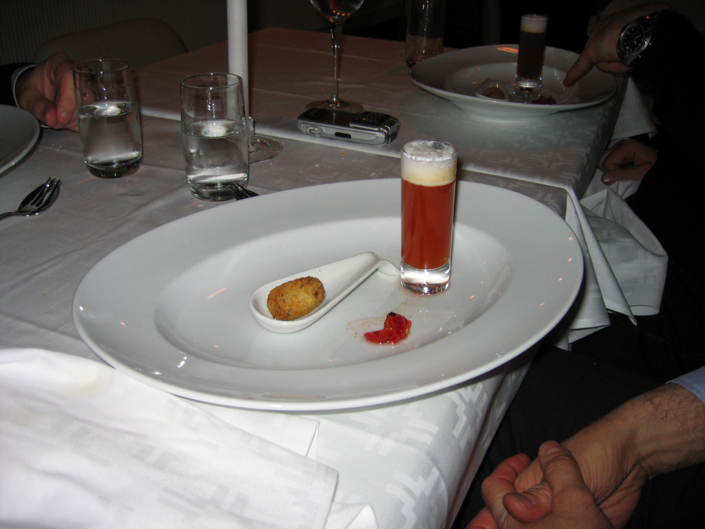 Rose-hip soup with vanilla flavored foam, accompanied by a deep fried chocolate ball, as served at the Smak vid havet restaurant in Malmö, Sweden